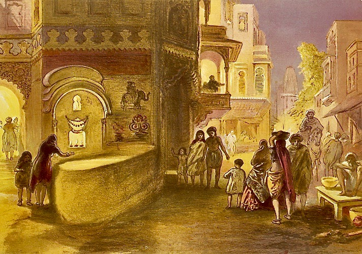 This 19th-century painting of Diwali / Dipavali / Divali / Dipotsava by William Simpson is archived at the British Library. Description from the source, "This chromolithograph is taken from plate 50 of William Simpson's 'India: Ancient and Modern'. The picture is suffused with the yellow glow of lamps in the gathering dusk; a woman is pictured leaning to light a lamp in a little niche at a street corner. Diwali, the Festival of Light, was marked ceremonially by the lighting of many such earthen lamps - diyas - all over India. The festival extended for five days during the lunar month of Kartika (October/November). It celebrated many things, such as the return of Rama and Sita from exile (as told in the Ramayana), the victory of Vishnu in avatar form over King Bali and minor deities such as Lakshmi, the goddess responsible for wealth and good fortune."